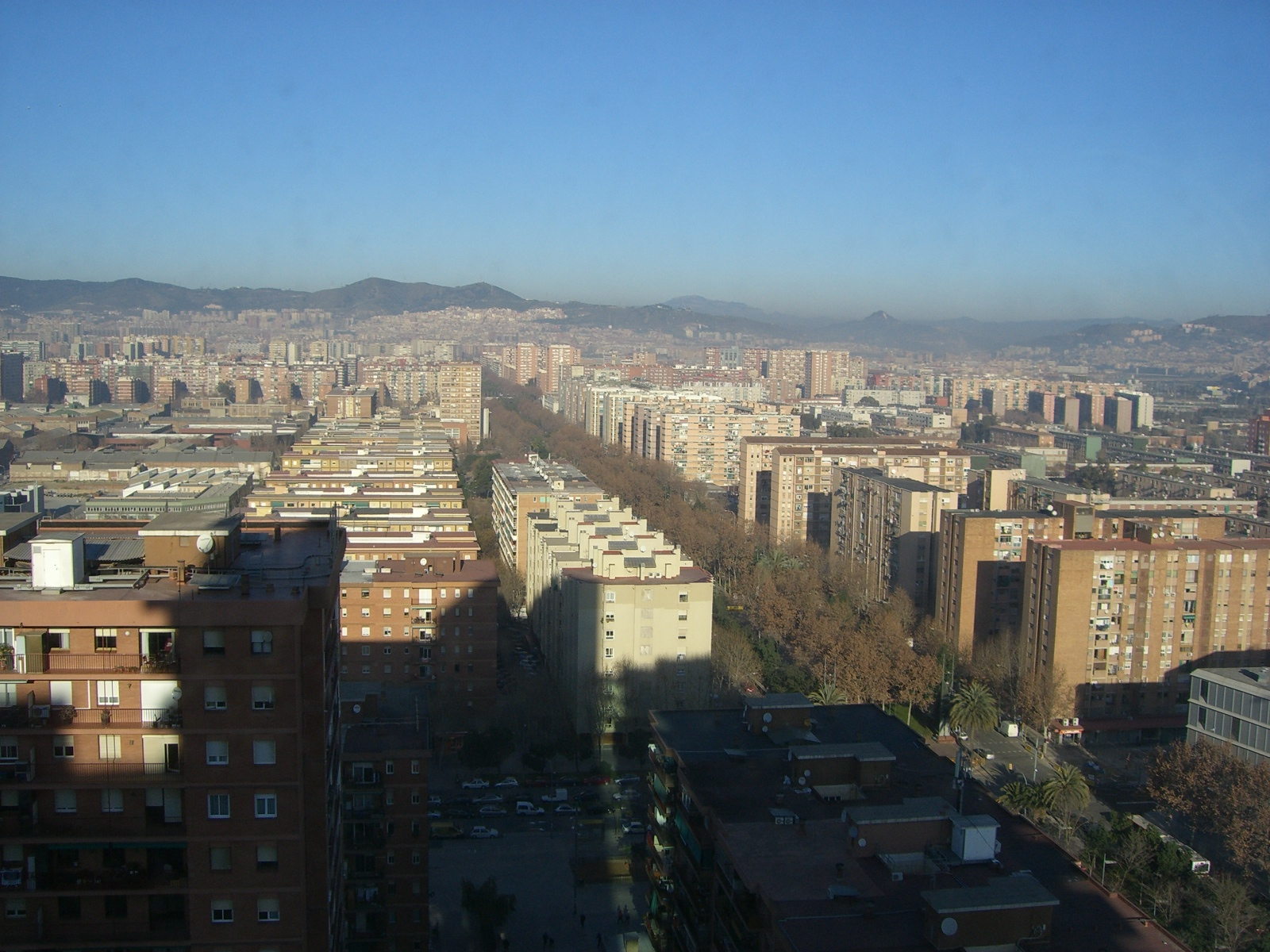 January 2007, princess hotel. View of Rambla de Prim